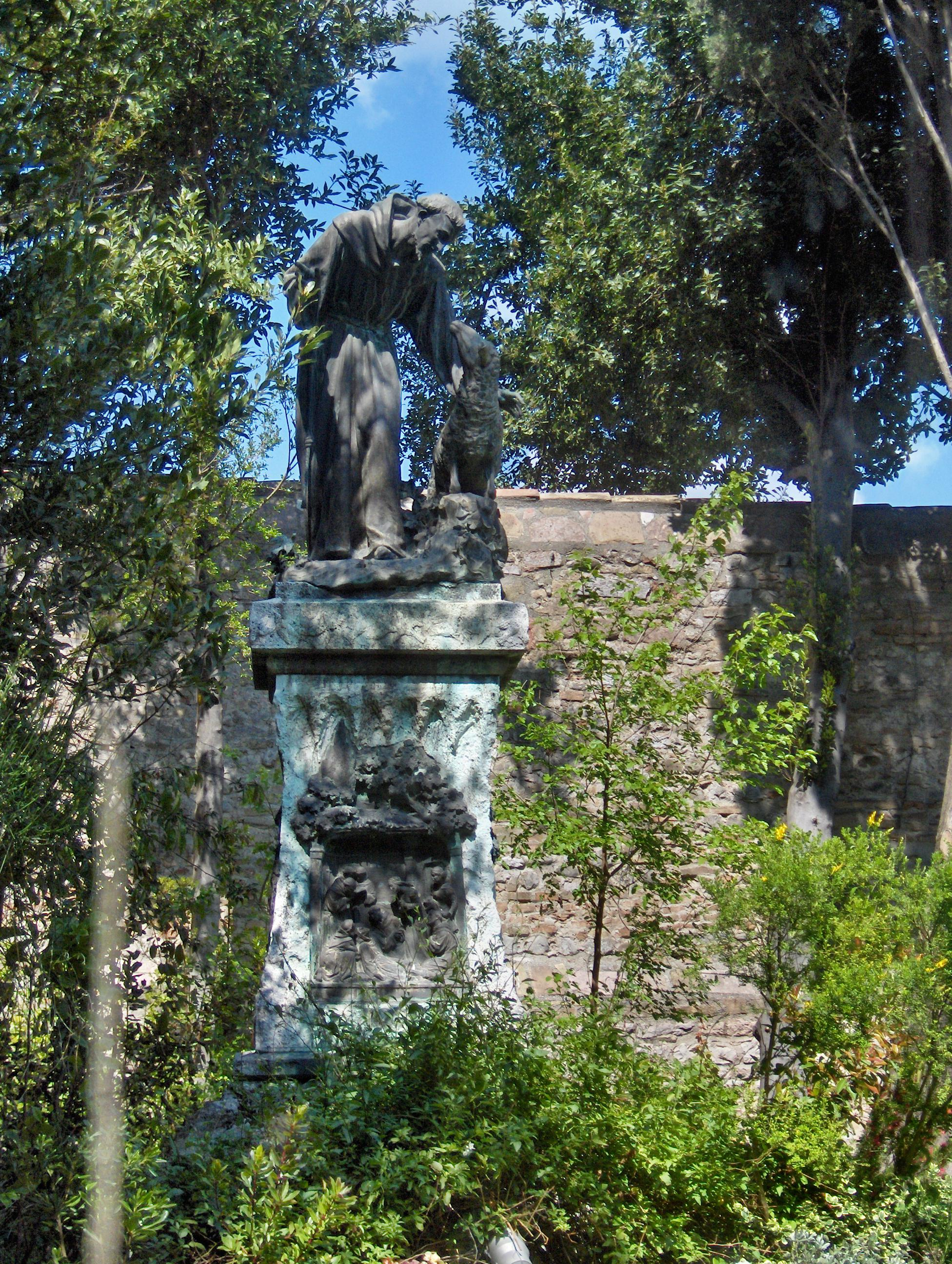 Statue of St. Francis and the wolf; the Rose Garden, Basilica of Santa Maria degli Angeli, Assisi, Italy